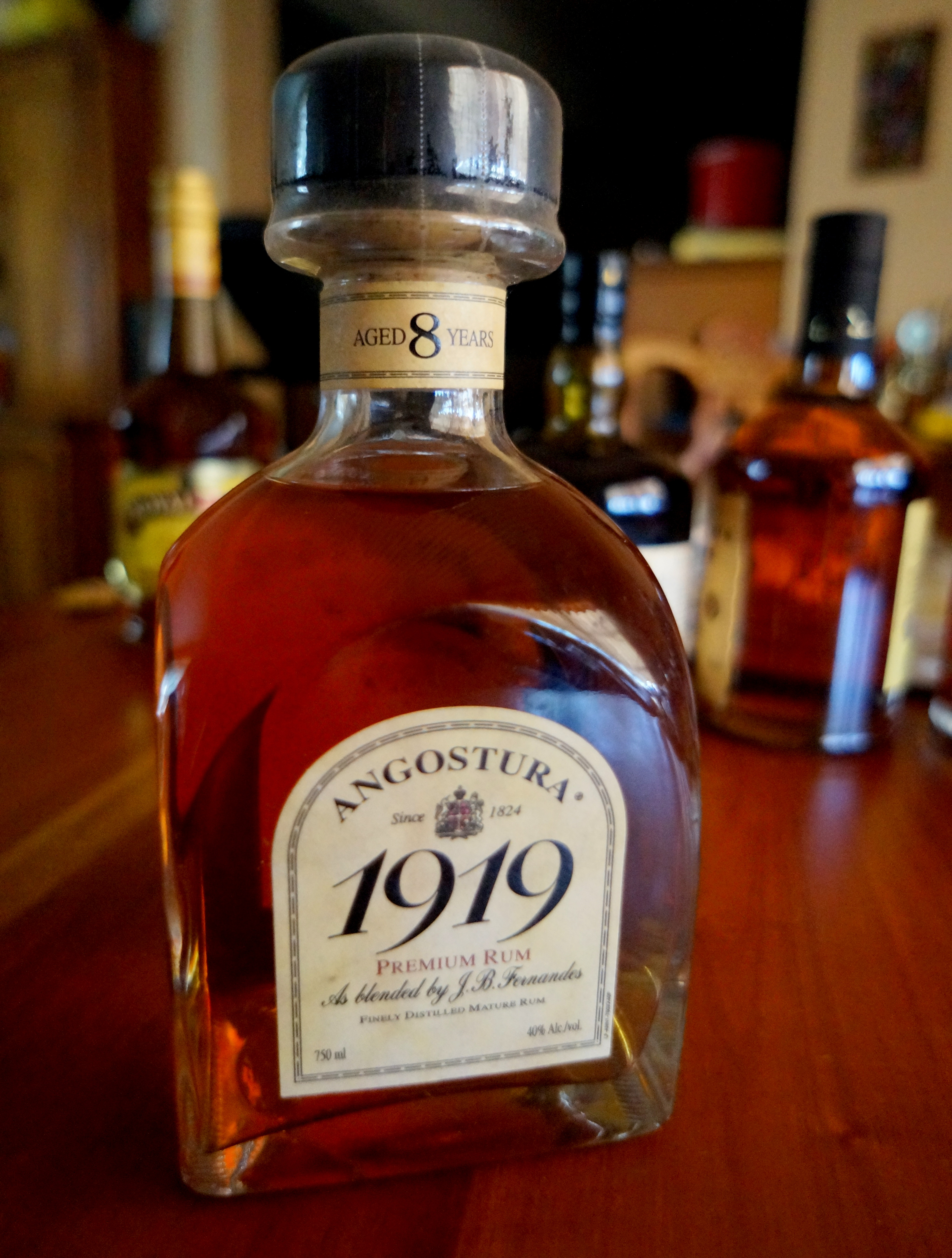 Angostura 1919 Rum More freely usable pictures related to spirits, beer, distilling etc.